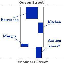 The layout of Ryan's Mart, a late-1850s slave market in Charleston, South Carolina, USA. The auction gallery is the only surviving structure, and now houses the Old Slave Mart Museum. The area behind the museum is now a parking lot. This rendering is based on a map on display in the Old Slave Mart Museum, and is not drawn to scale.